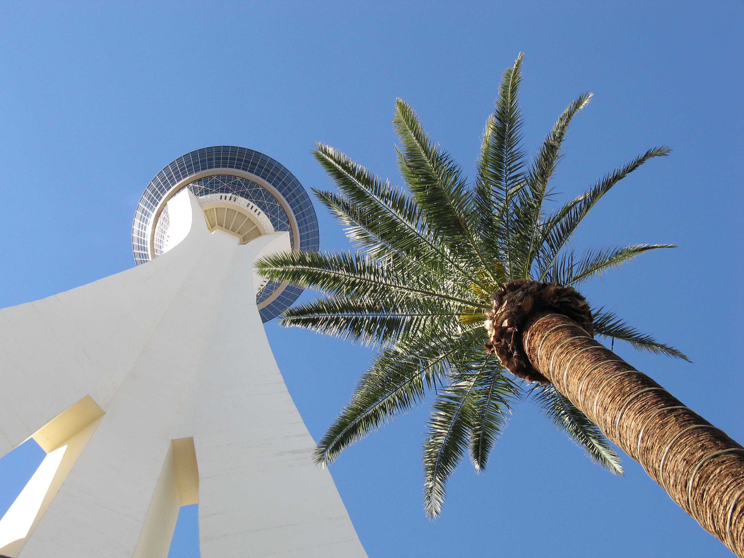 "Two Towers" - The Stratosphere Tower in Las Vegas, Nevada, alongside a palm tree.